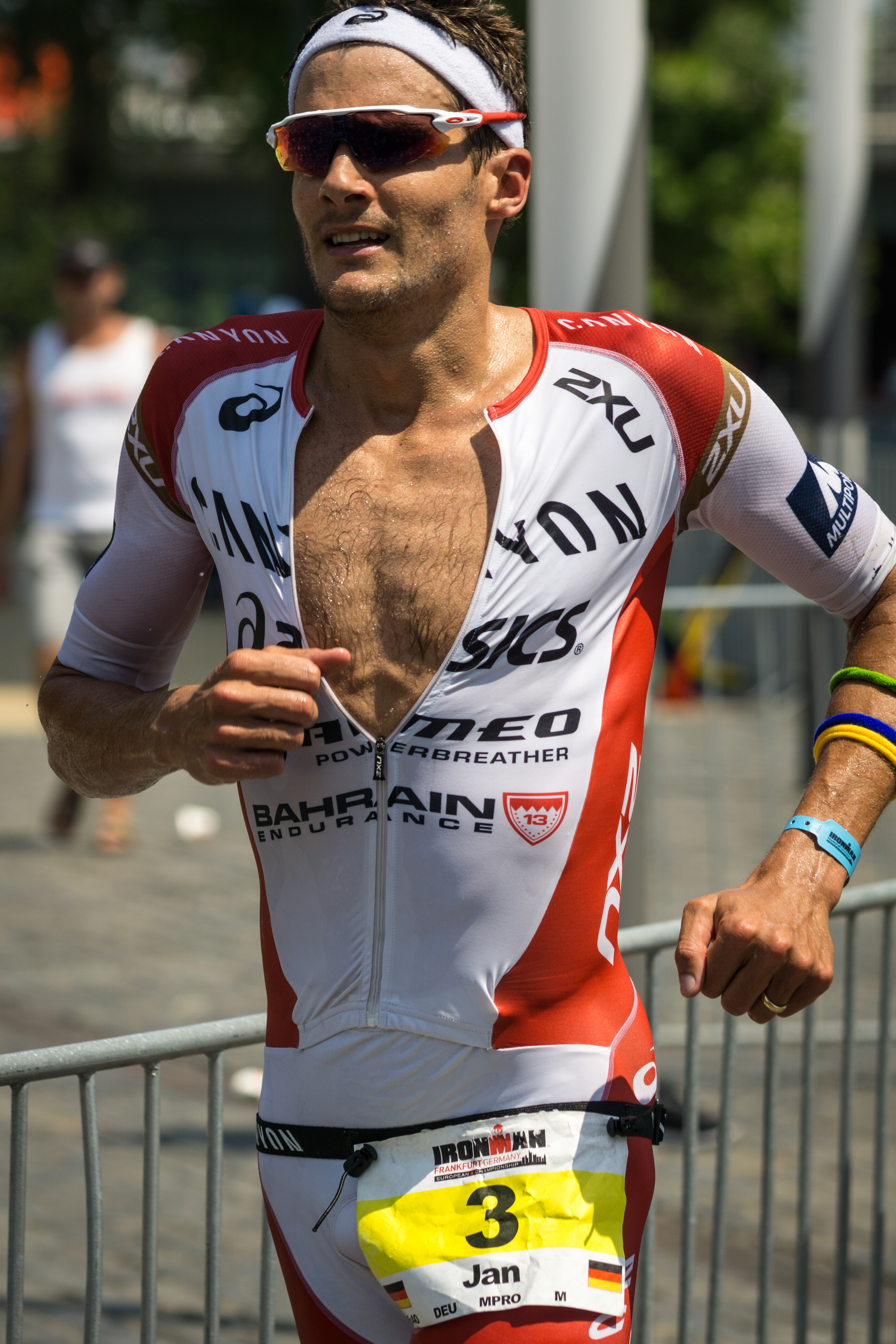 Jan Frodeno at the 2015 Ironman European Championship in Frankfurt am Main.